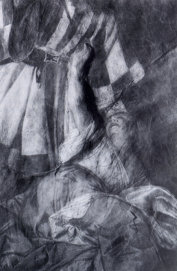 Morosini's discovery records the only instance of Titian's use of three-dimensional technique of his career. shows a detail from Titian's fresco, The Miracle of the Jealous Husband, where Titian built three-dimensionally with the intonaco, the hand and arm of the wife, instead of the two-dimensional effects he uses throughout the painting. Morosini's photograph records the only instance of Titian's use of three-dimensional technique within a painting in his entire oevre. Author of the Photograph, Sergio Rossetti Morosini. Subject: Jealous Husband, fresco, detail by Titian, 1511, in the Scuola del Santo in Padova, Italy. Atributtion required. Reproduction/distribution for commercial use only with Author's written permission.